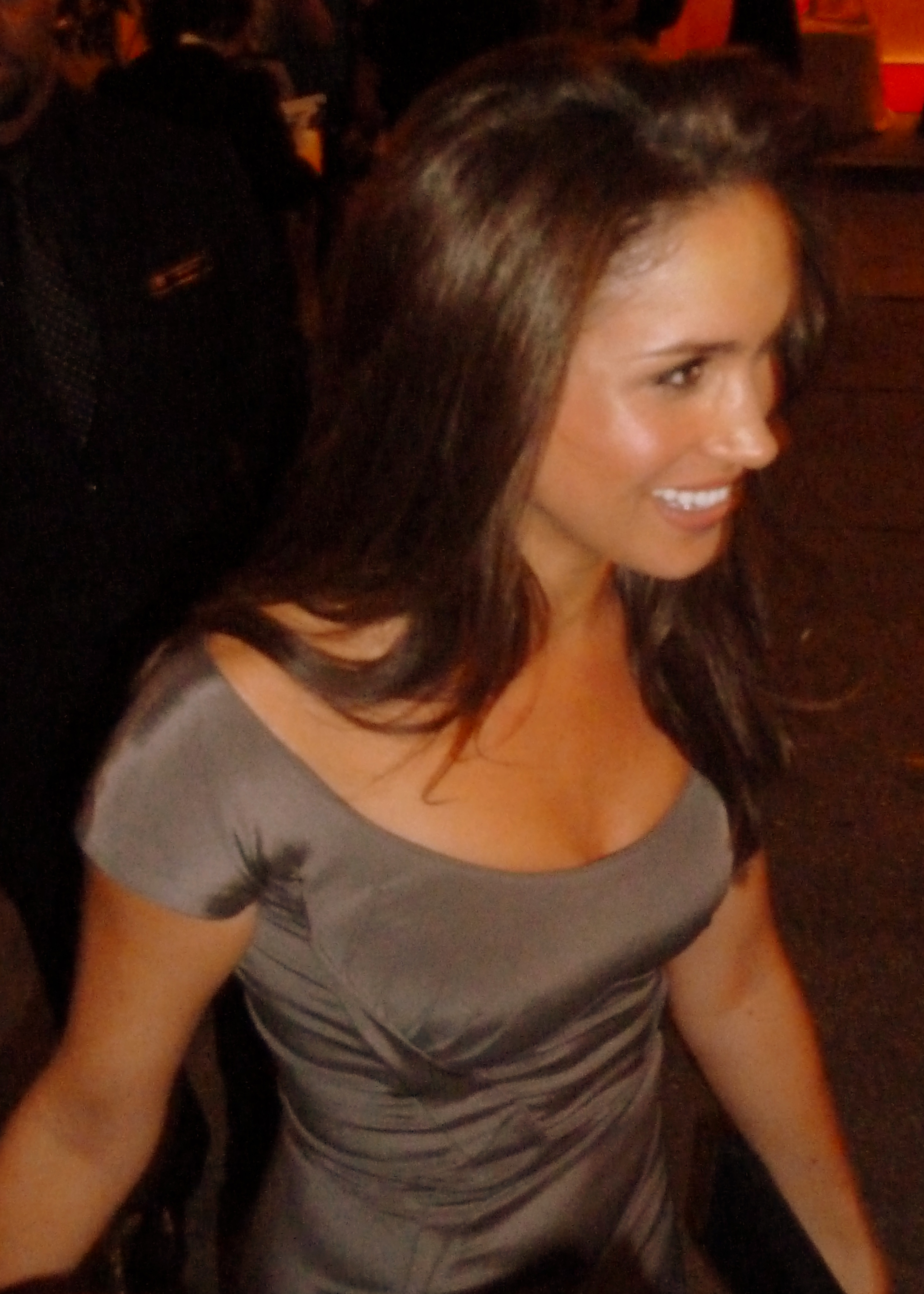 Meghan Markle at the InStyle Party, Toronto Film Festival 2012